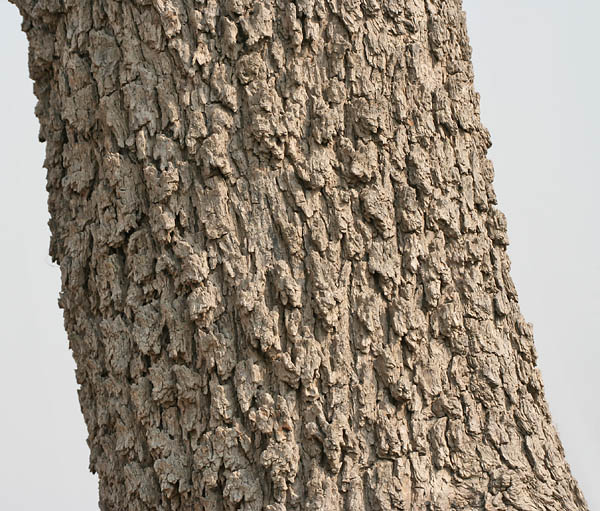 Jhand Prosopis cineraria at Hodal in Faridabad District of Haryana, India.